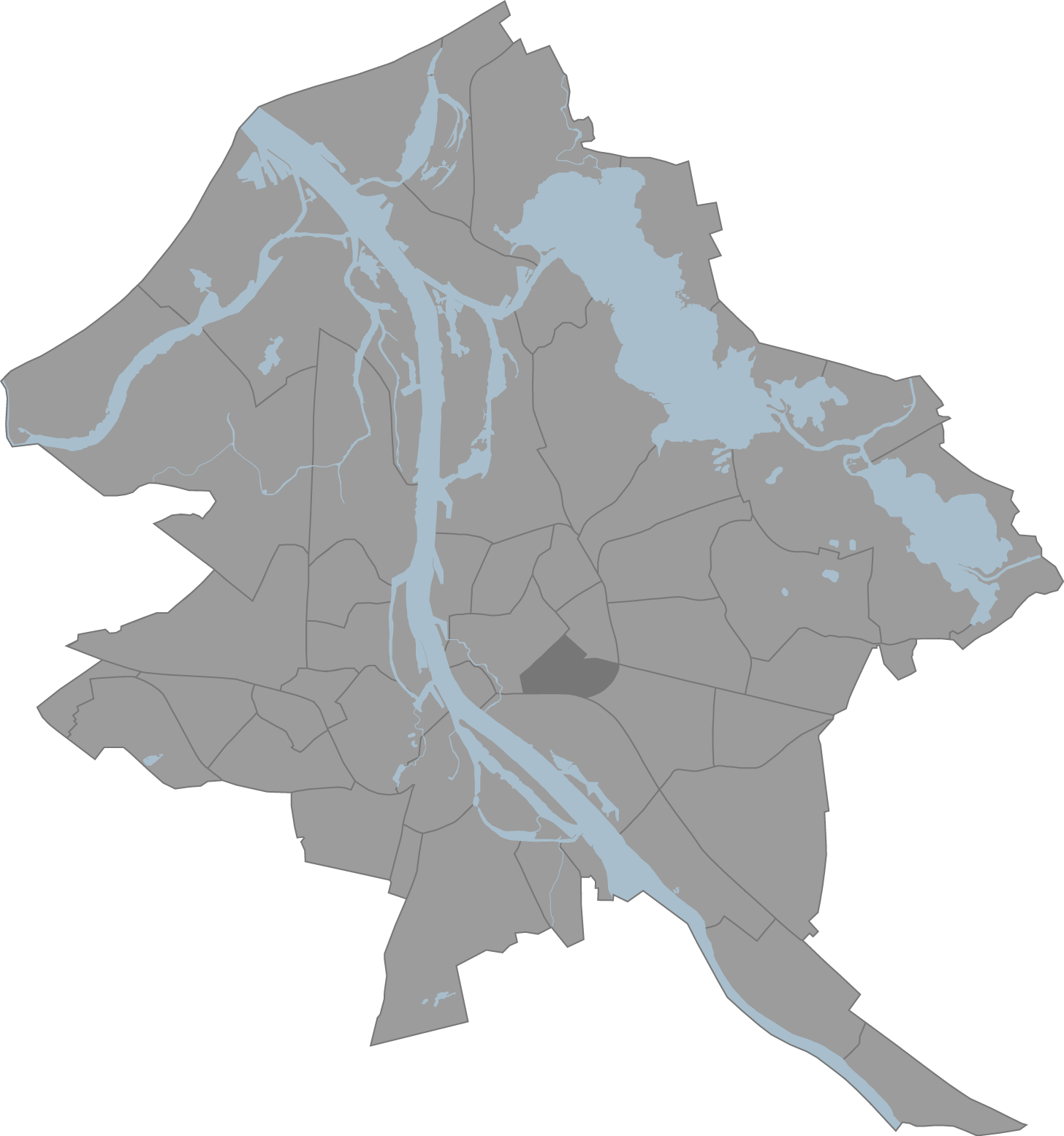 A map of Riga, Latvia with the eponymous commune highlighted